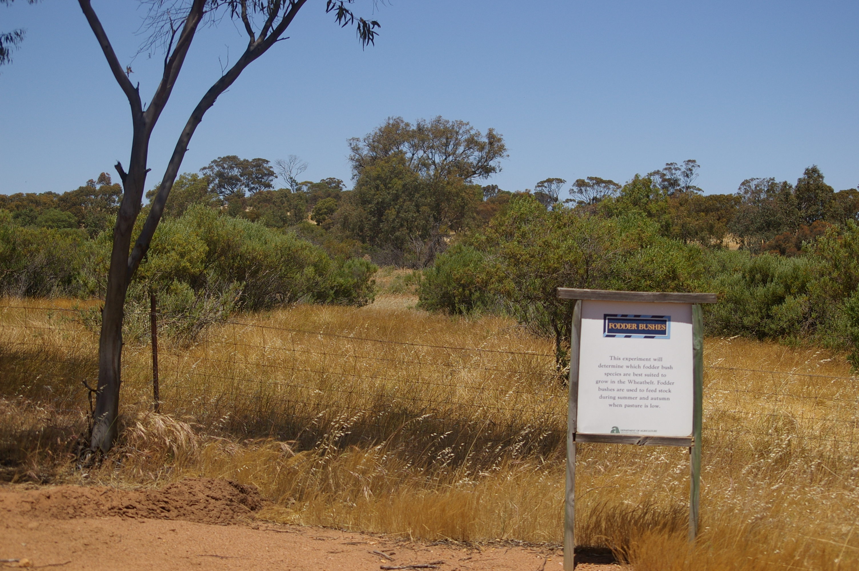 Taken on the Avondale Agricultural Reasearch Station Paddock information sign, this is paddock is researching the ability of various salt bush species to established an provide ongoing livestock fodder